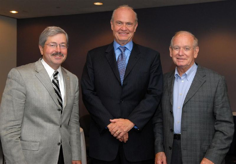 Senator Thompson in Iowa.Terry, Fred and Bob